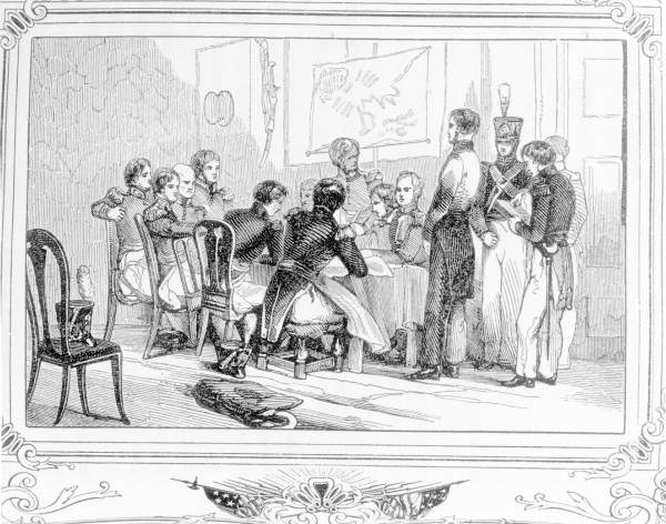 Title [The trial of Ambrister during the Seminole War: Florida] [graphic] Publication Date 1848. Note: Illustration from John Frost's "Life of Jackson" (1848). Note: During the war, the Indians captured Robert Christy Ambrister and Alexander Arbuthnot. These two Scottish men had cavorted with the Seminoles and the Spainards and were charged and tried for crimes against the United States. URL